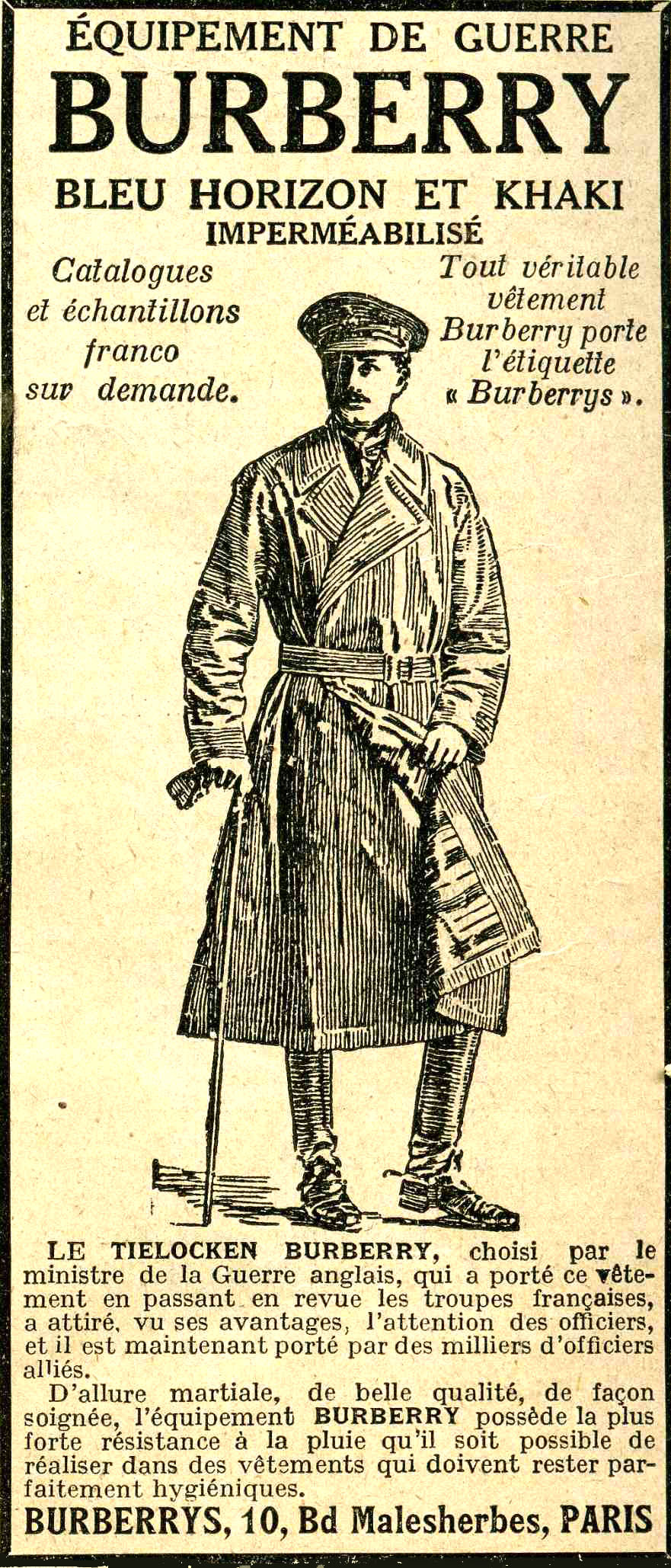 1917 advertisement for Burberry war equipment